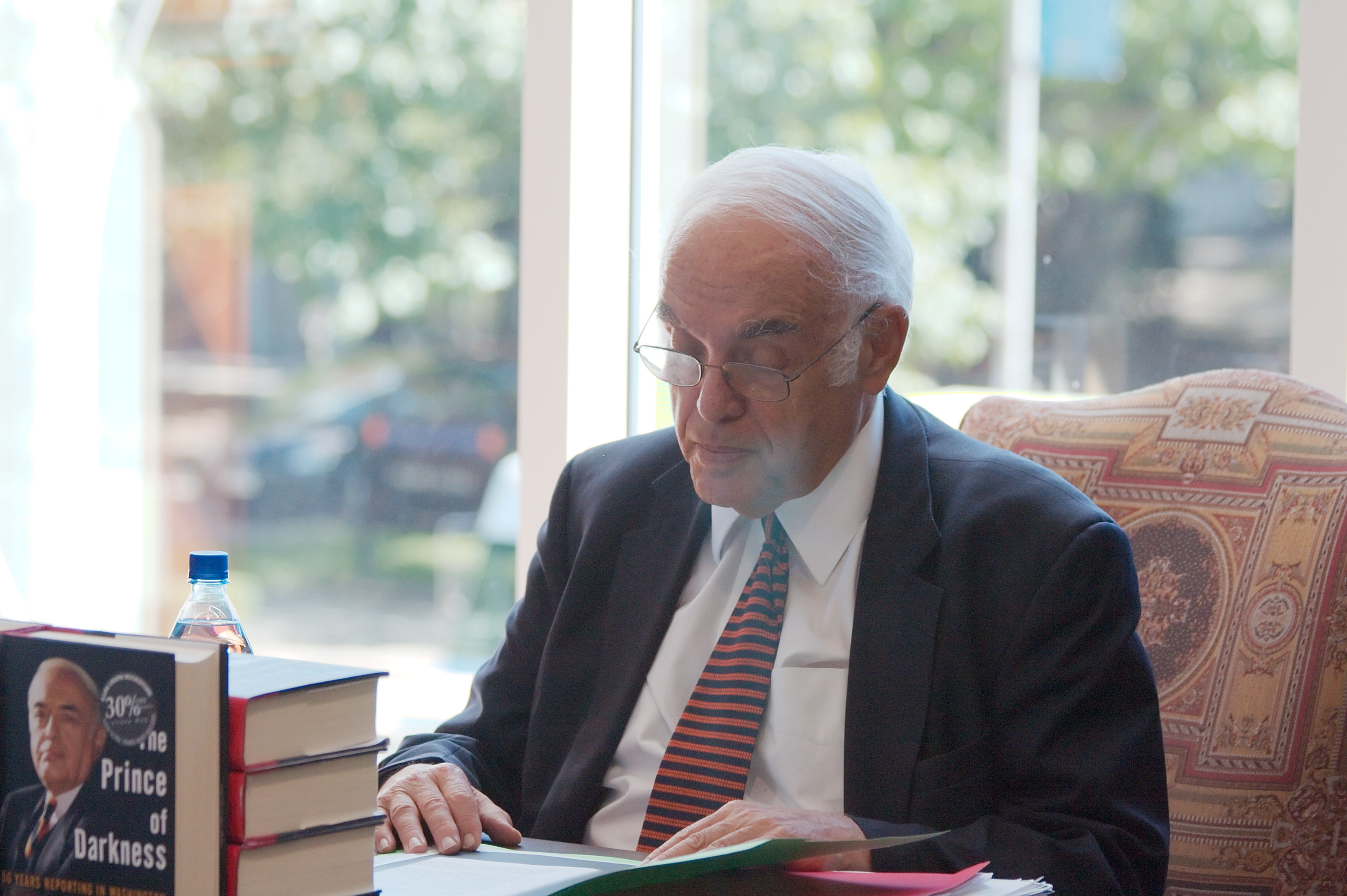 Robert Novak talking about his memoir book "Prince of Darkness, 50 years reporting in Washington" at the Illini Union Bookstore in Champaign, Illinois